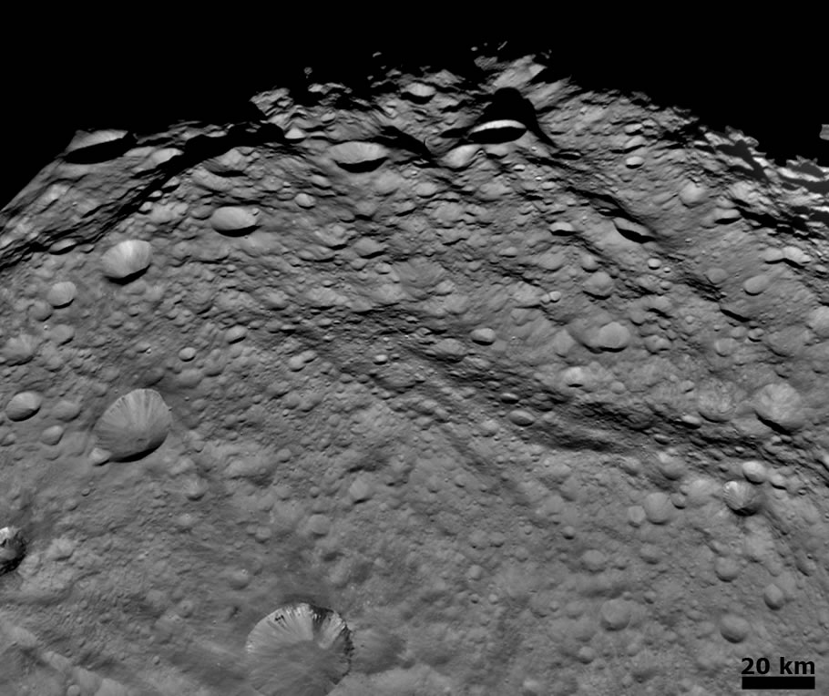 An image of densely cratered terrain on Vesta near the terminator, taken by Dawn on August 6, 2011. It has a resolution of about 260 meters per pixel. North is in the direction of "two o'clock".